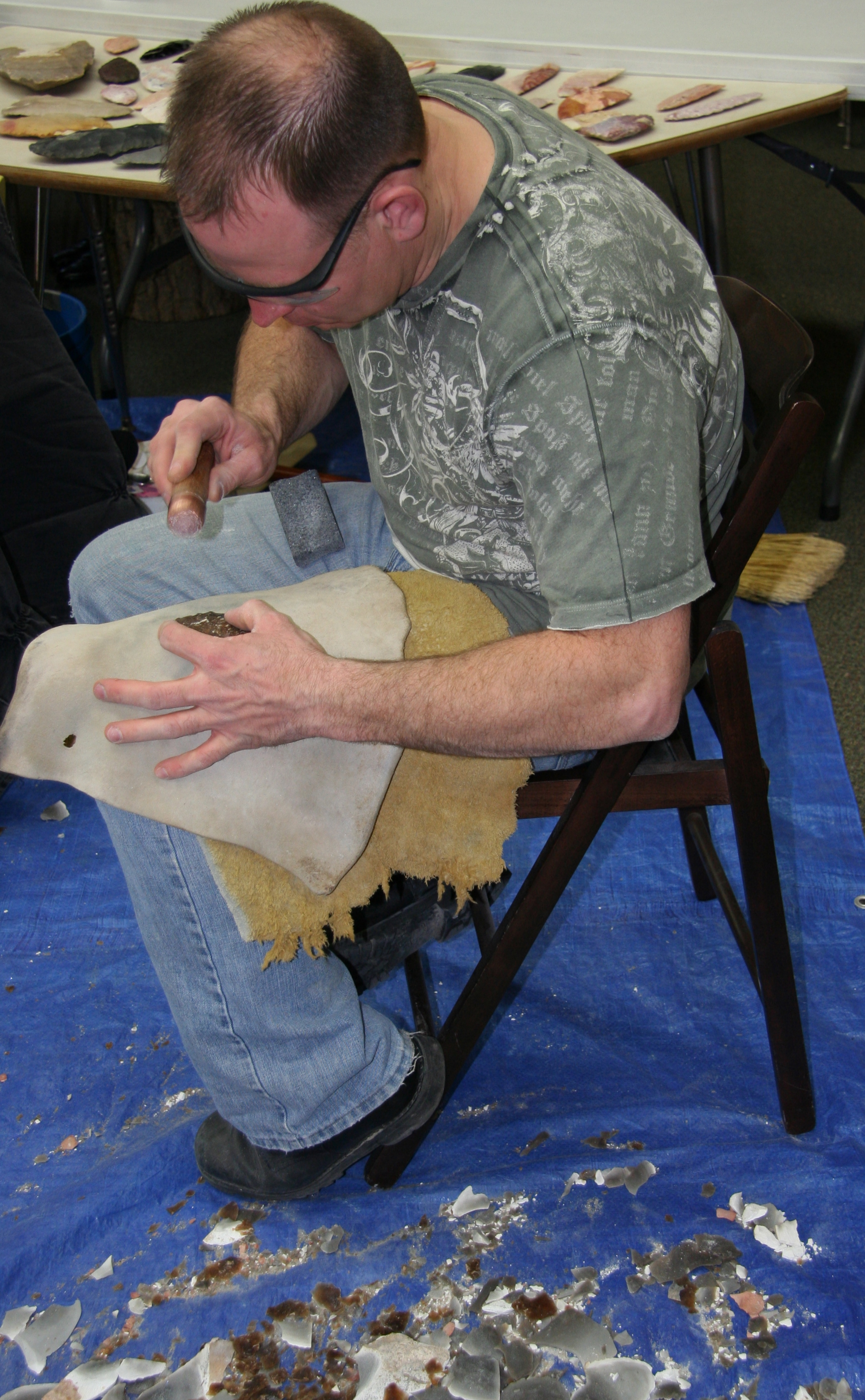 Flintknapping demonstration at the Quarry Hill Nature Center in Rochester, Minnesota